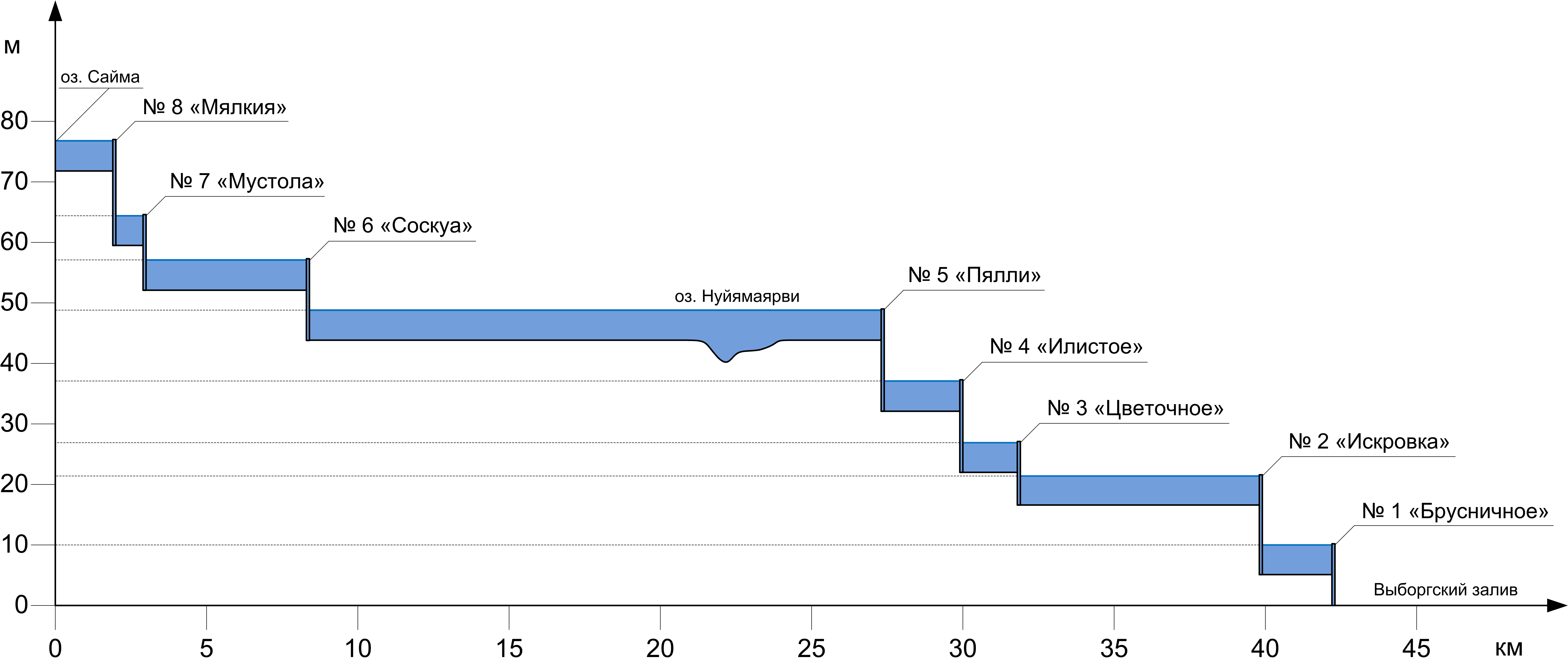 The Saimaa Canal locks scheme